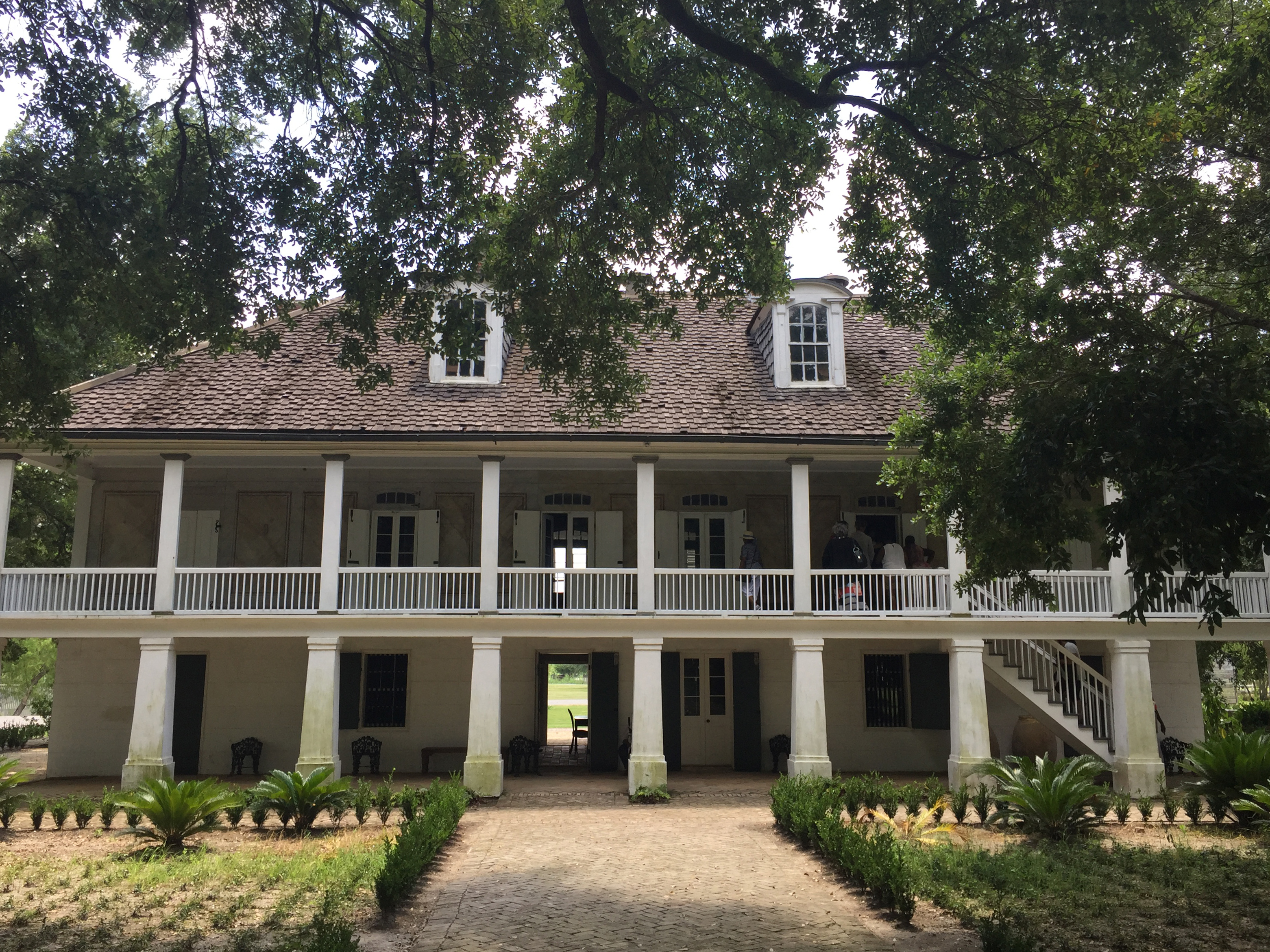 The Big House, seen in the movie "Django Unchained." Raised French Creole style cottage was built of masonry and cypress in the late 18th century. It is one of the earliest and best preserved Creole plantation houses standing on River Road. Sometime prior to 1815, the Big House was expanded to its present configuration with seven rooms on each level, plus a full-length gallery across the front and an open loggia facing the rear. This is also one of the very few historic American houses known to have received decorative wall paintings on both its exterior and interior.